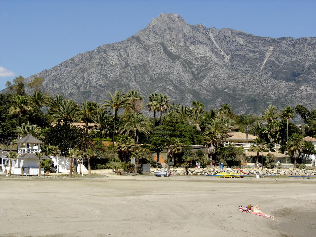 Hotel Puente Romano, Marbella, province of Málaga, Spain.